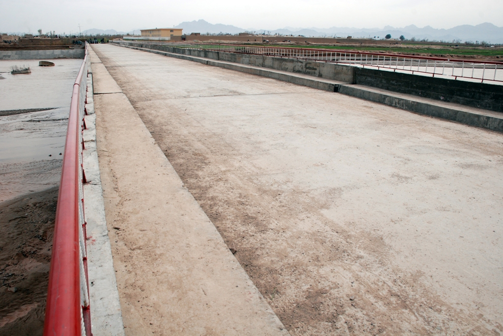 The following is the author's description of the photograph quoted directly from the photograph's Flickr page."Zeerko Valley - Shindand District - Afghanistan (Mar. 2010) - The bridge at the end of works "